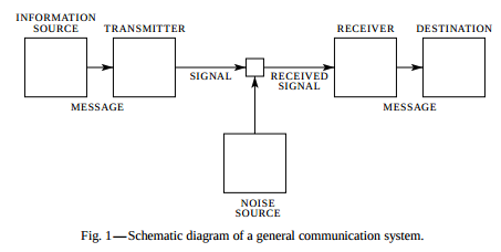 Noisy Channel.